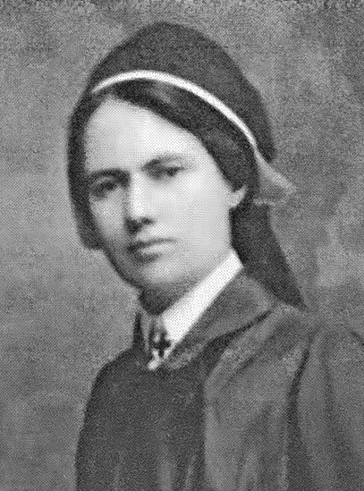 Angela Boškin at her graduation in Vienna c1914